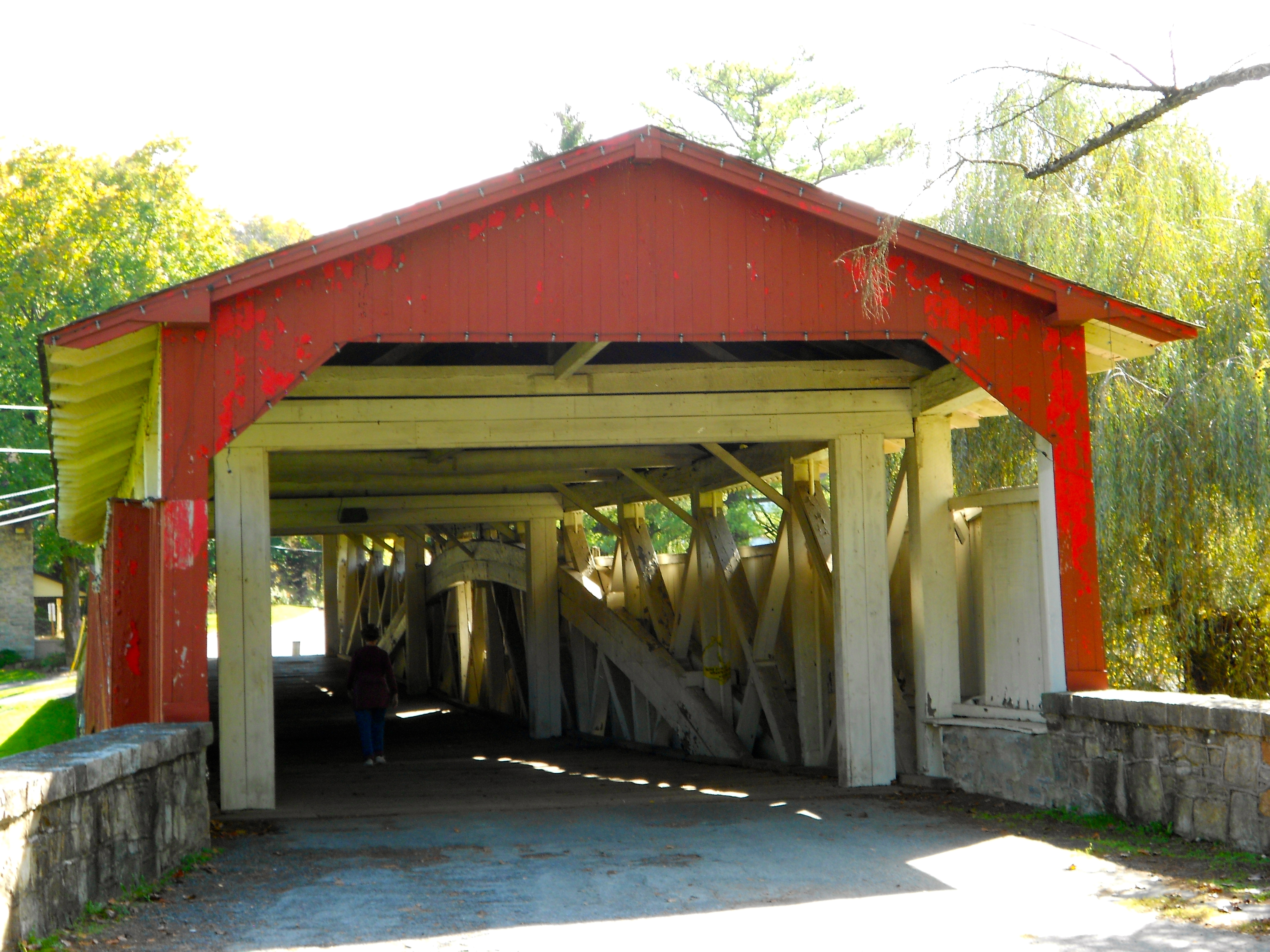 Bogert Covered Bridge in Lehigh County, Pennsylvania. Crosses Little Lehigh Creek in Little Lehigh Park in Allentown, PA. On the NRHP